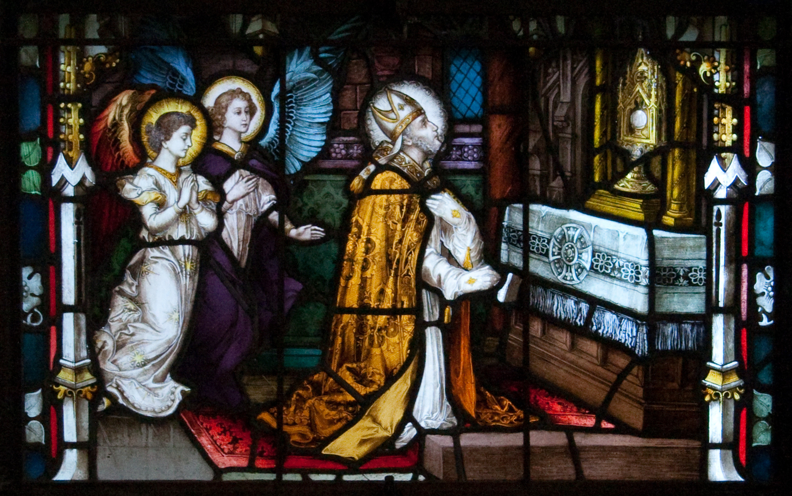 Carlow, Carlow Cathedral, Ireland Bottom feature of the right stained glass window in the north transept, showing St Alphonsus kneeling before the Most Holy Sacrament. One of his best known works is The Visits to the Most Holy Sacrament. Created by Franz Mayer & Co. in the 19th century. Franz Borgias Mayer (1848–1926) Alternative names Mayer, FranzDescriptionGerman stained-glass artistDate of birth/death 1848 1926 Work location Munich Authority control : Q21000395 VIAF: 80993958 GND: 136691900 creator QS:P170,Q21000395